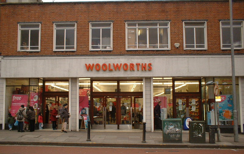 Woolworths shop frontage, Camberwell. Taken by C Ford 21st February 2004.